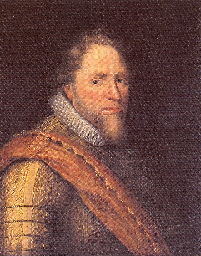 Maurice of Nassau, prince of Orange and Stadhouder